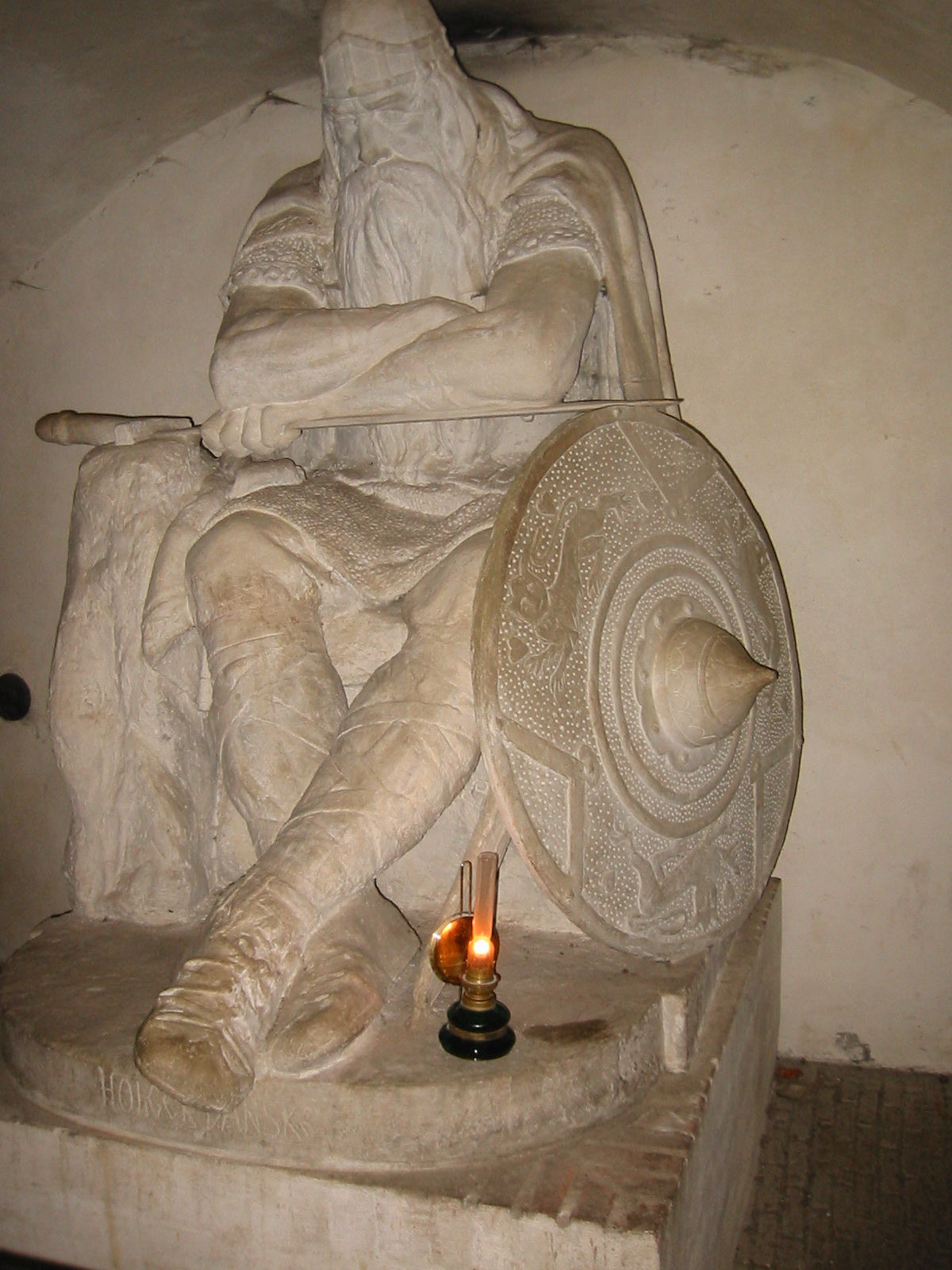 Holger Danske in the casemates of Kronborg